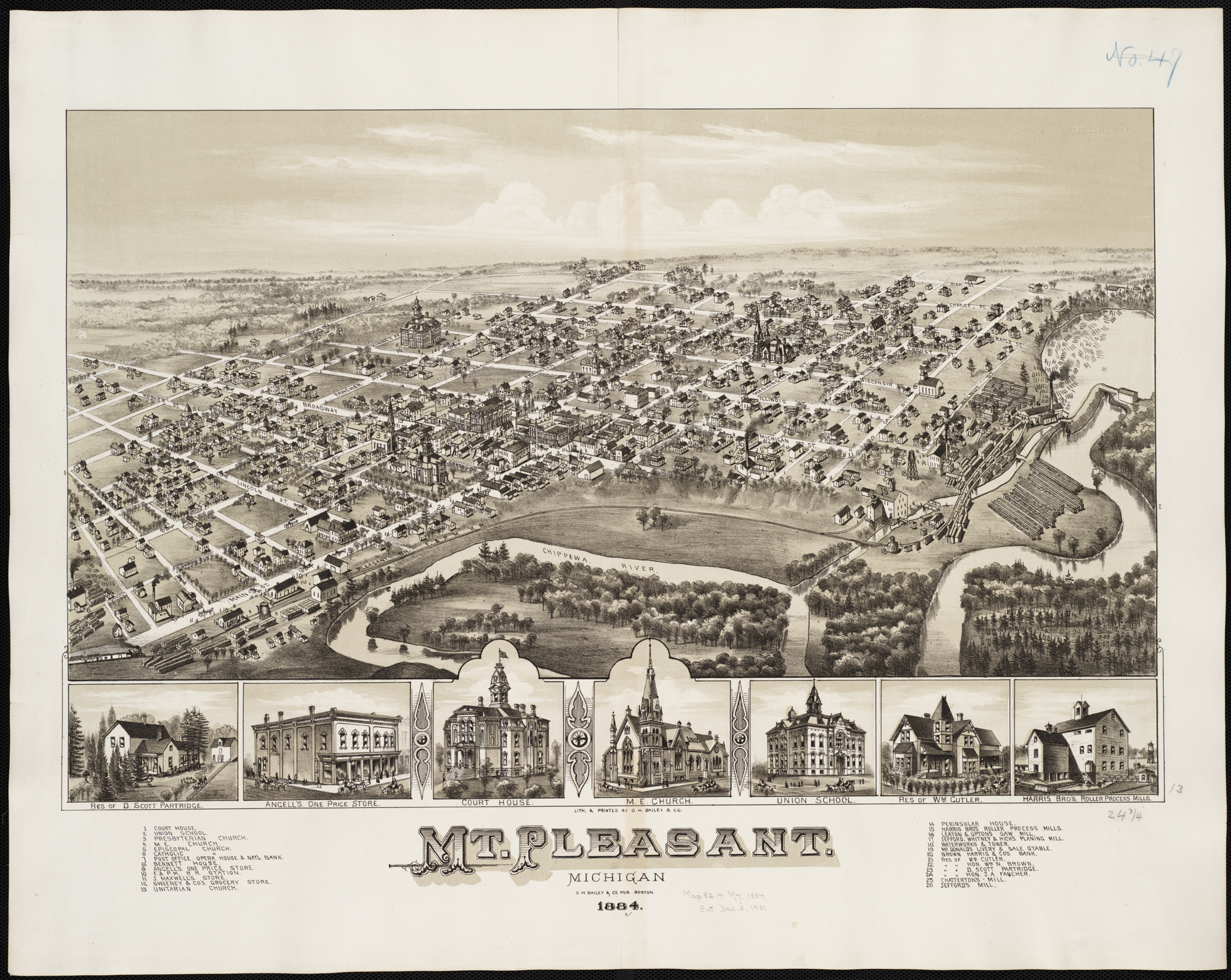 Author: O.H. Bailey & Co. Publisher: O.H. Bailey & Co. Pub. Date: 1884. Location: Mount Pleasant (Mich.) Scale: Not drawn to scale Call Number: G4114.M8A3 1884.M7